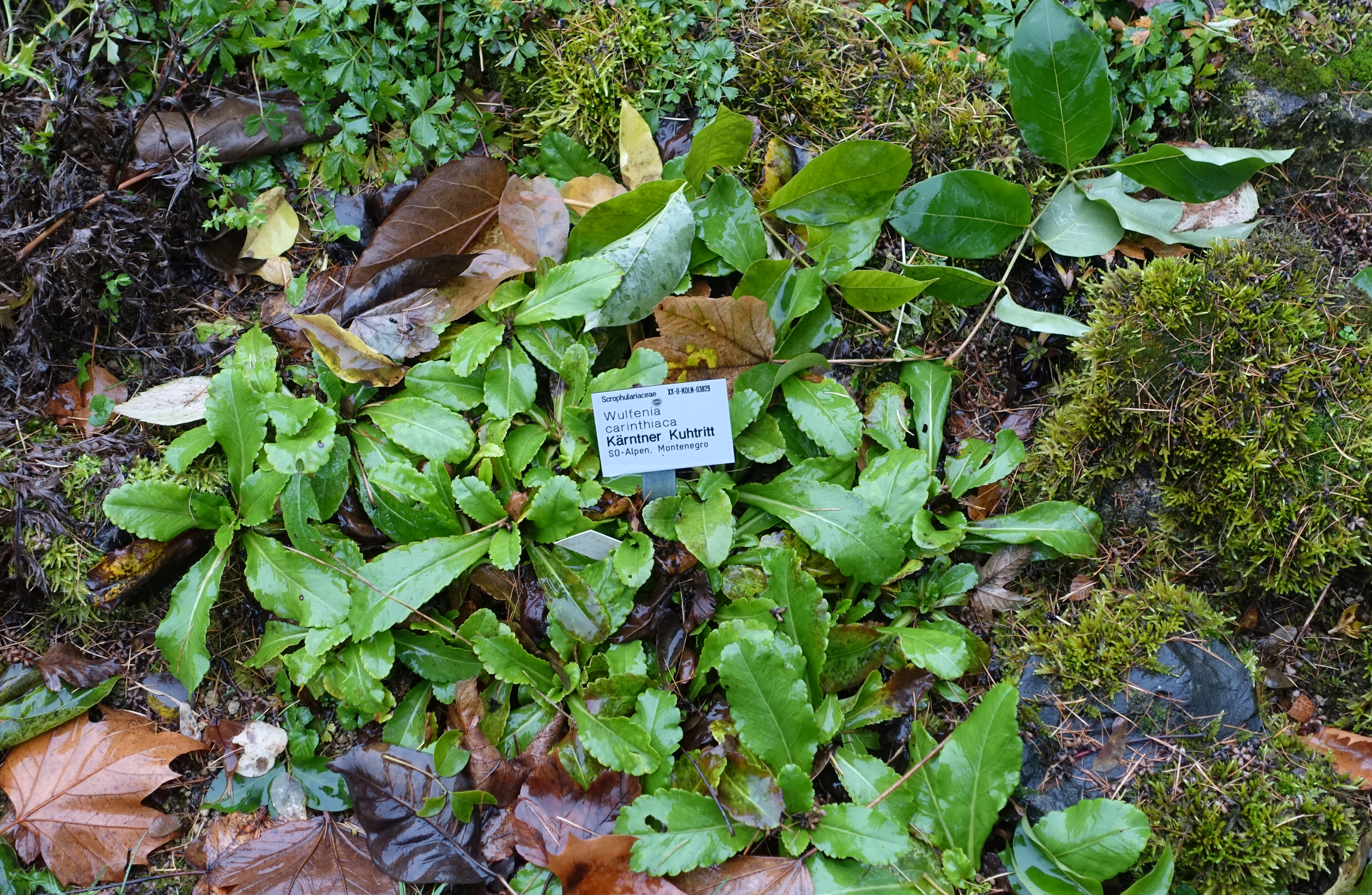 Botanical specimen in the Flora und Botanischer Garten Köln - Cologne, Germany.